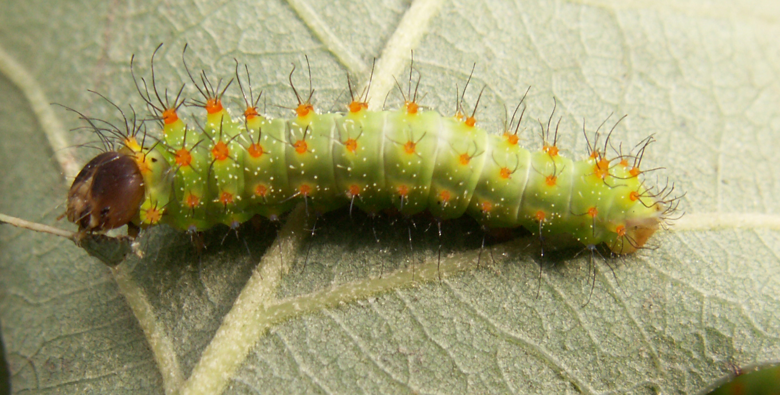 Antheraea pernyi 2nd instar caterpillars feeding on Quercus (Oak). Raised by Shawn Hanrahan.